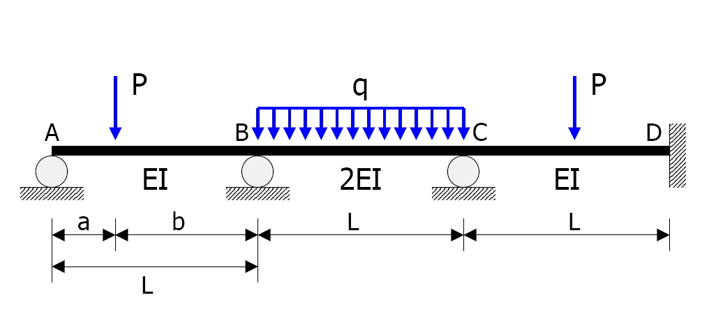 To be used for an example of the 모멘트 분배법(unit load method).